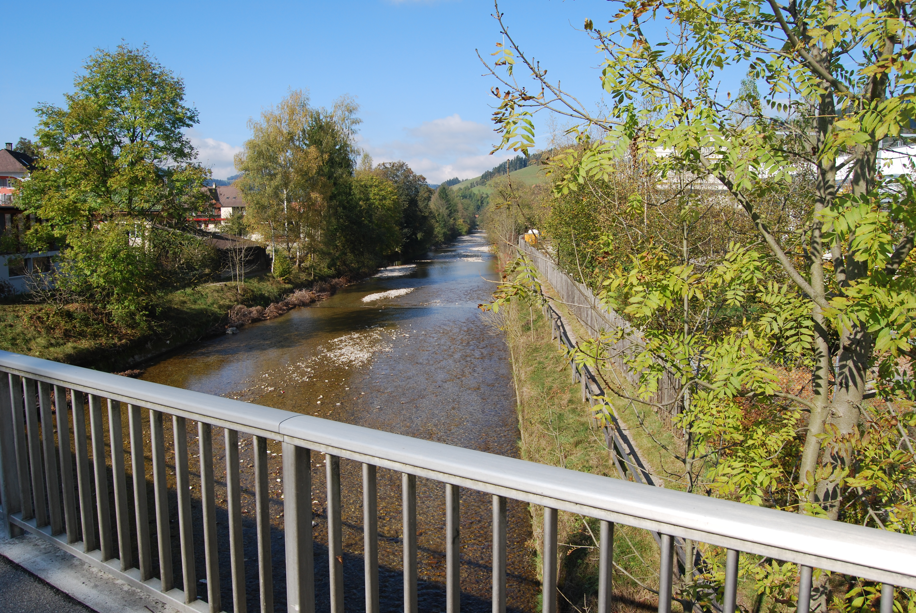 Ilfis at Langnau im Emmental, canton of Bern, SwitzerlandEsperanto: Ilfis en Langnau en Emme-Valo, Kantono Berno, Svislando